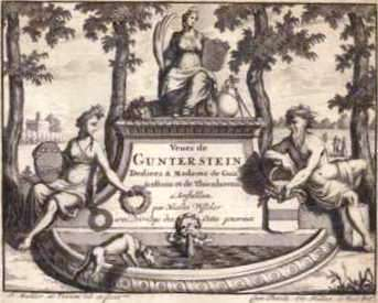 Veues de Gunterstein - Allegorical titlepage by Joseph Mulder for Nicolas Visscher (publisher). Text: Veues de Gunterstein / Dediees A Madame de Gunterstein et de Thienhoven / Amsteldam par Nicolas Visscher cum privilege. Signed lower left: J. Mulder ad vivum del. et fecit